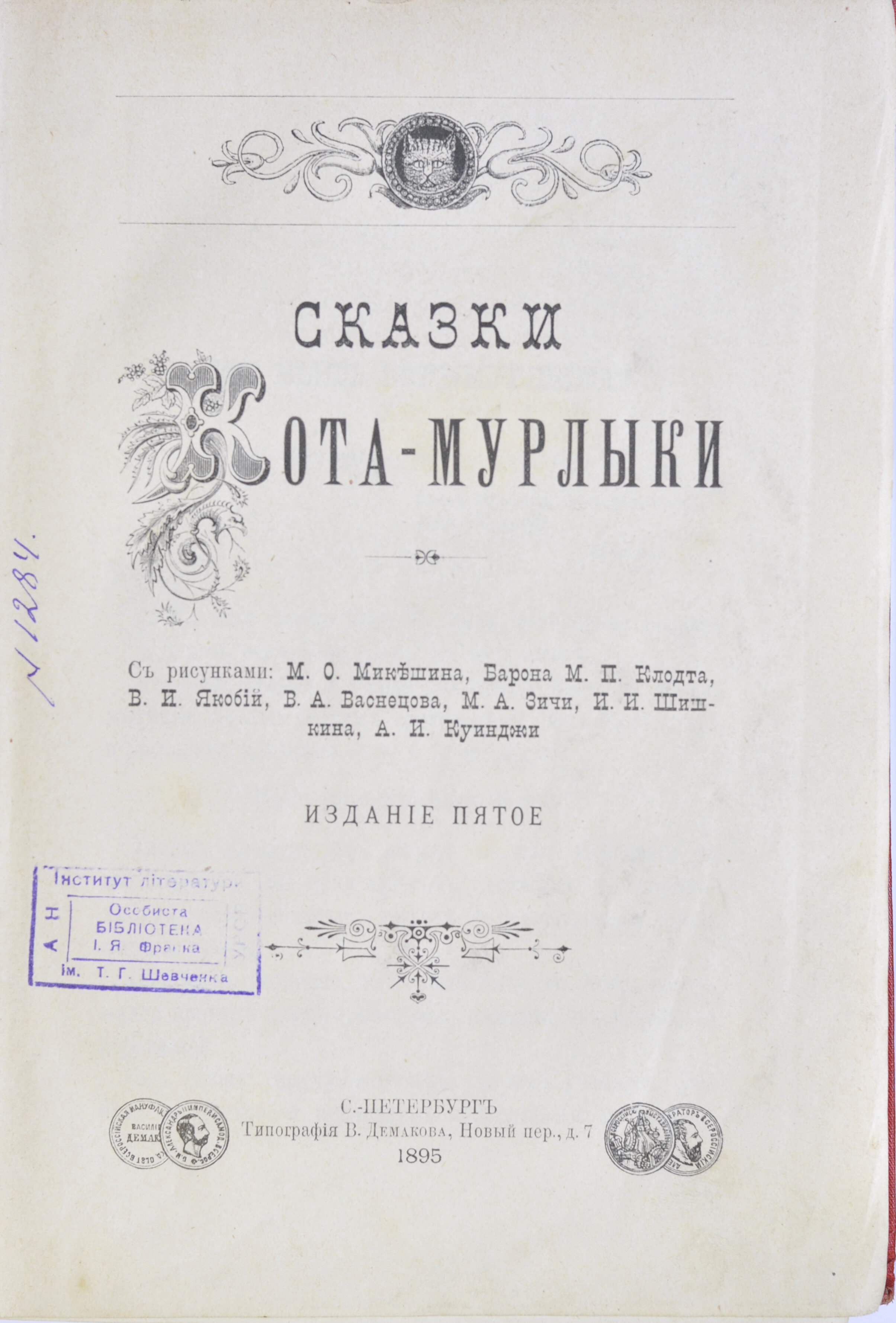 Cat Murlyka tales by M.Vagner. Title page. From Ivan Franko personal Library